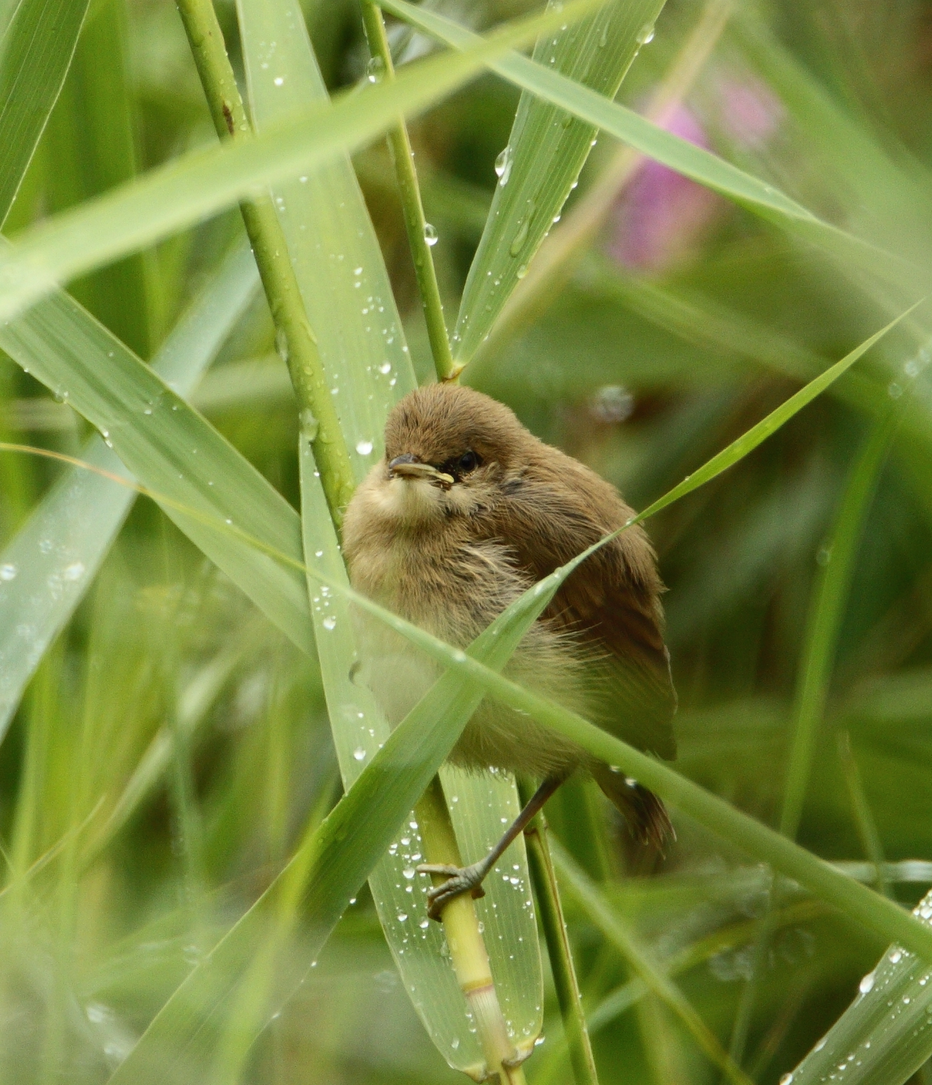 Young Eurasian Reed Warbler